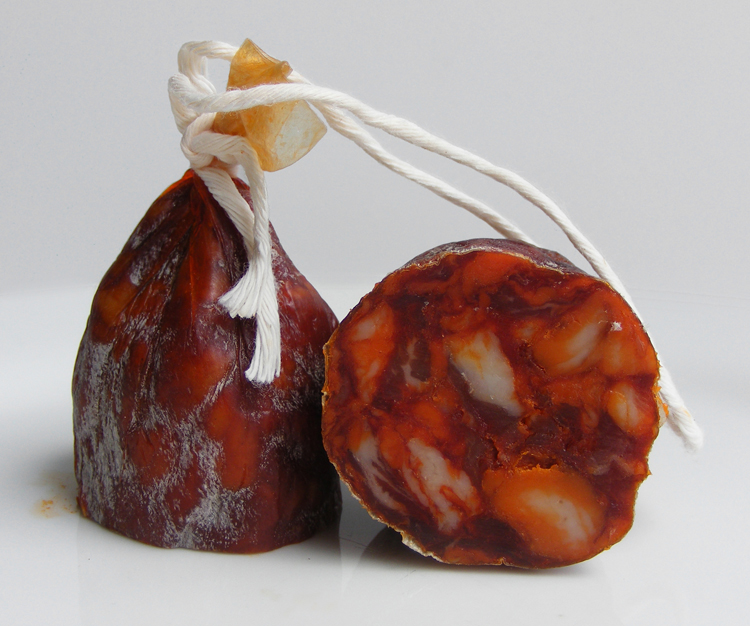 Piràmide d'aliments de l'Empordà